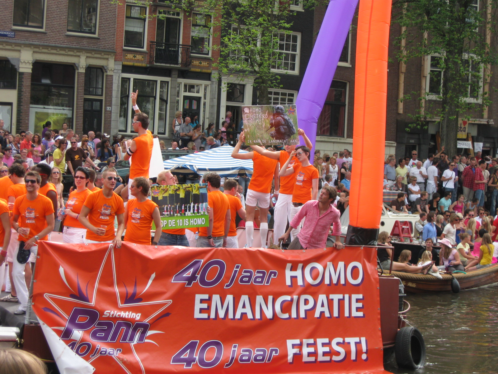 Boat of the gay party organizer PANN (celebrating its 40-year anniversary) during the Amsterdam Gay Pride of 2009.